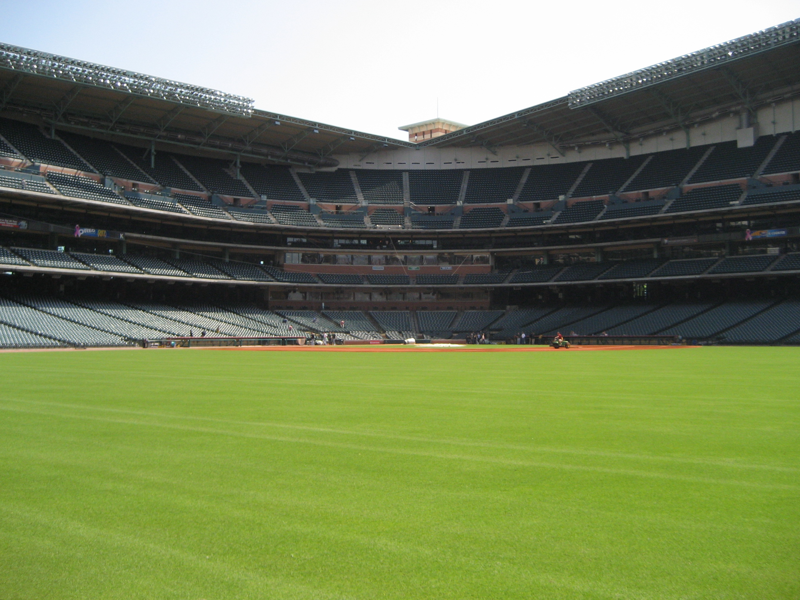 View from Center Field at Minute Maid Park in Houston, Texas.